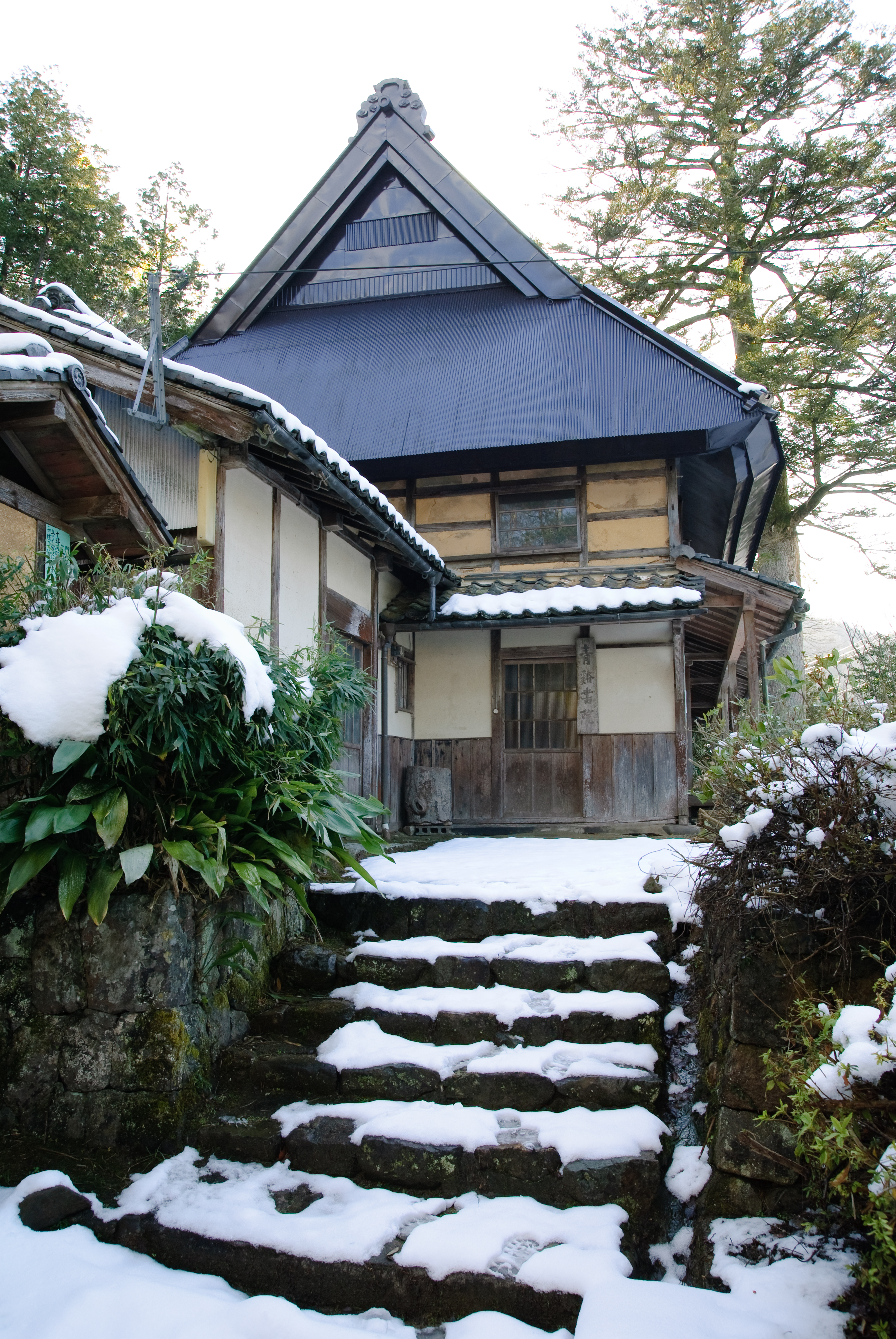 This is Ikeda Soan private school"Seikei Shoin"(1845-1878).